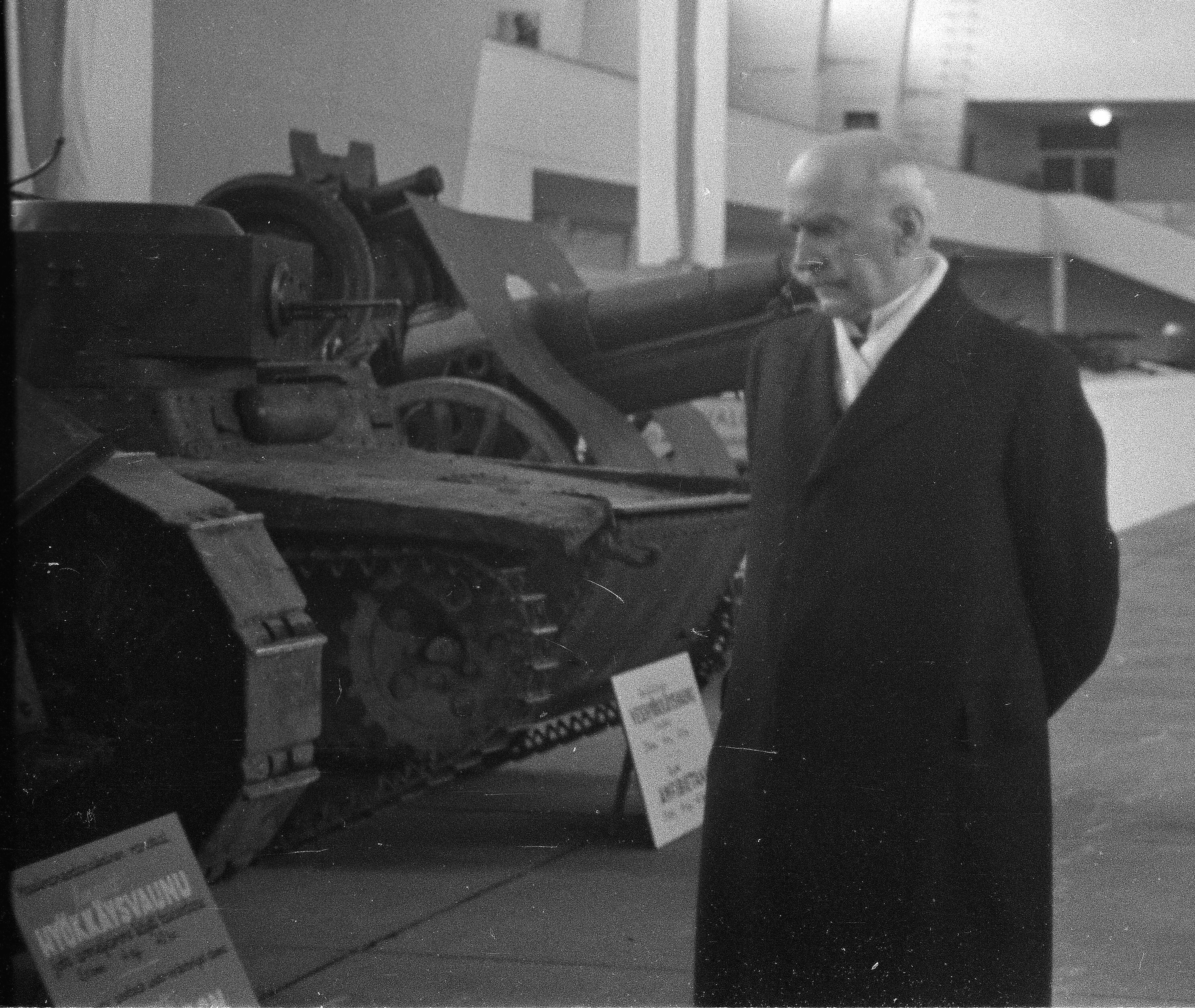 Photograph of the Finnish Provincial Governor Ilmari Helenius.